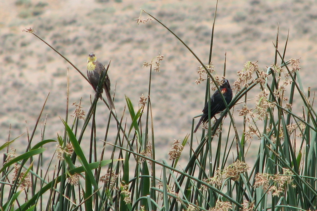 A molting male Yellow-headed Blackbird (left) and a male Red-winged Blackbird (right) at the Swan Lake Nature Study Area, a small conservation area north of Reno, Nevada